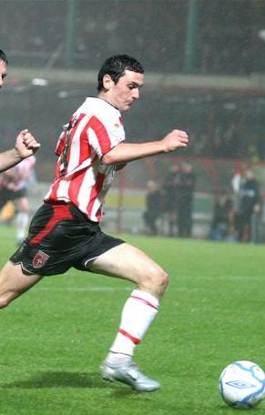 M. Farren. Cropped personal photo.